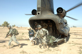 BRASSFIELD-MORA, Iraq – Soldiers of the 101st Airborne Division's, 3rd Battalion 187th Infantry Regiment, exit an Army CH-47 Chinook helicopter in support of Operation Swarmer March 16.